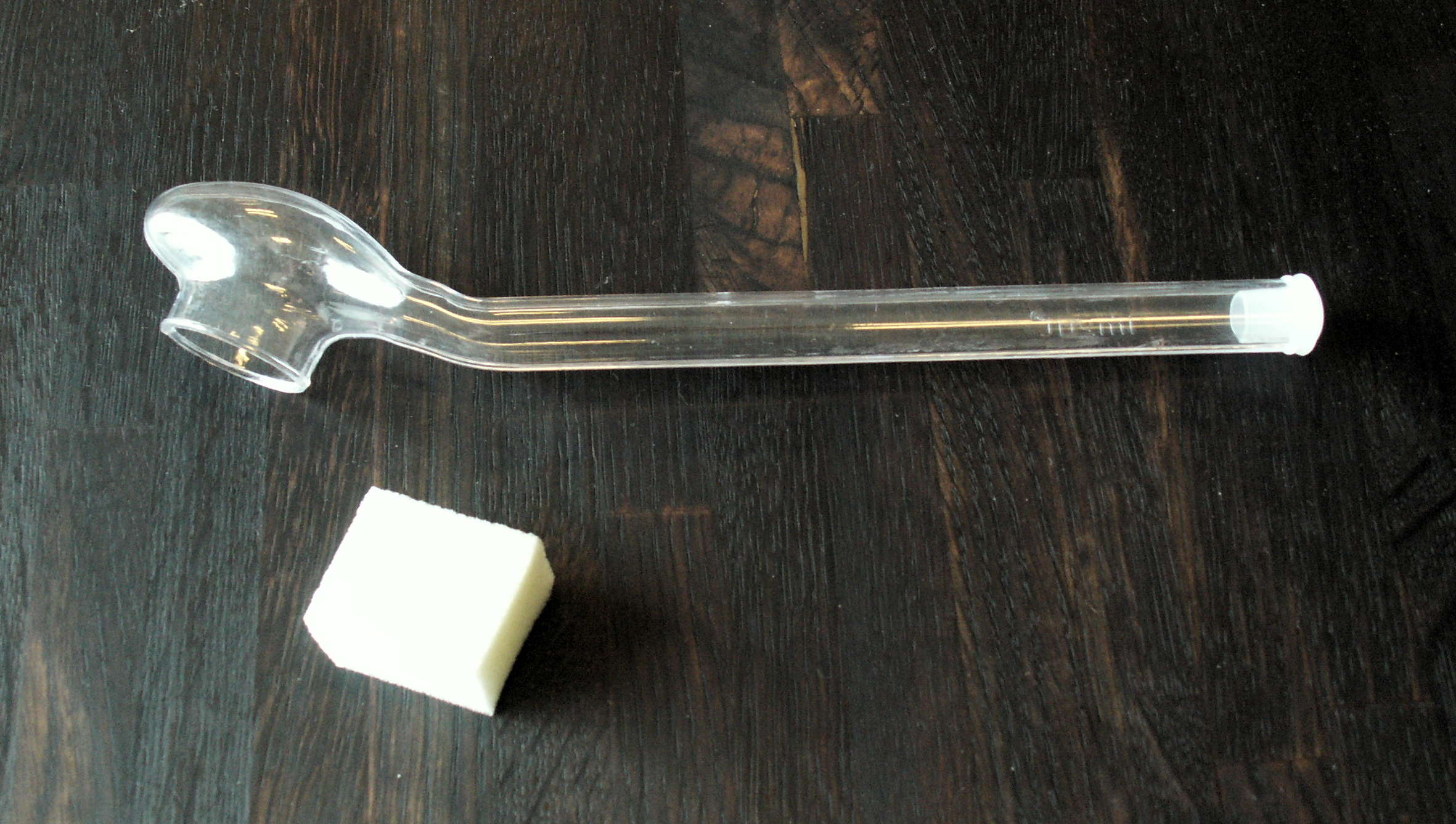 Bee queen catcher in transparent plastic. The catcher is held by hand (the part to the right), and the foam plastic is mounted in the opening, to secure the catched queen inside. This catcher is used for transport form the hive to another hive or for eventual disposal of an unwanted queen.